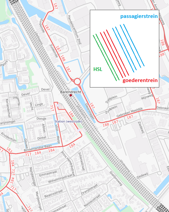 Map of Kap van Barendrecht with legenda